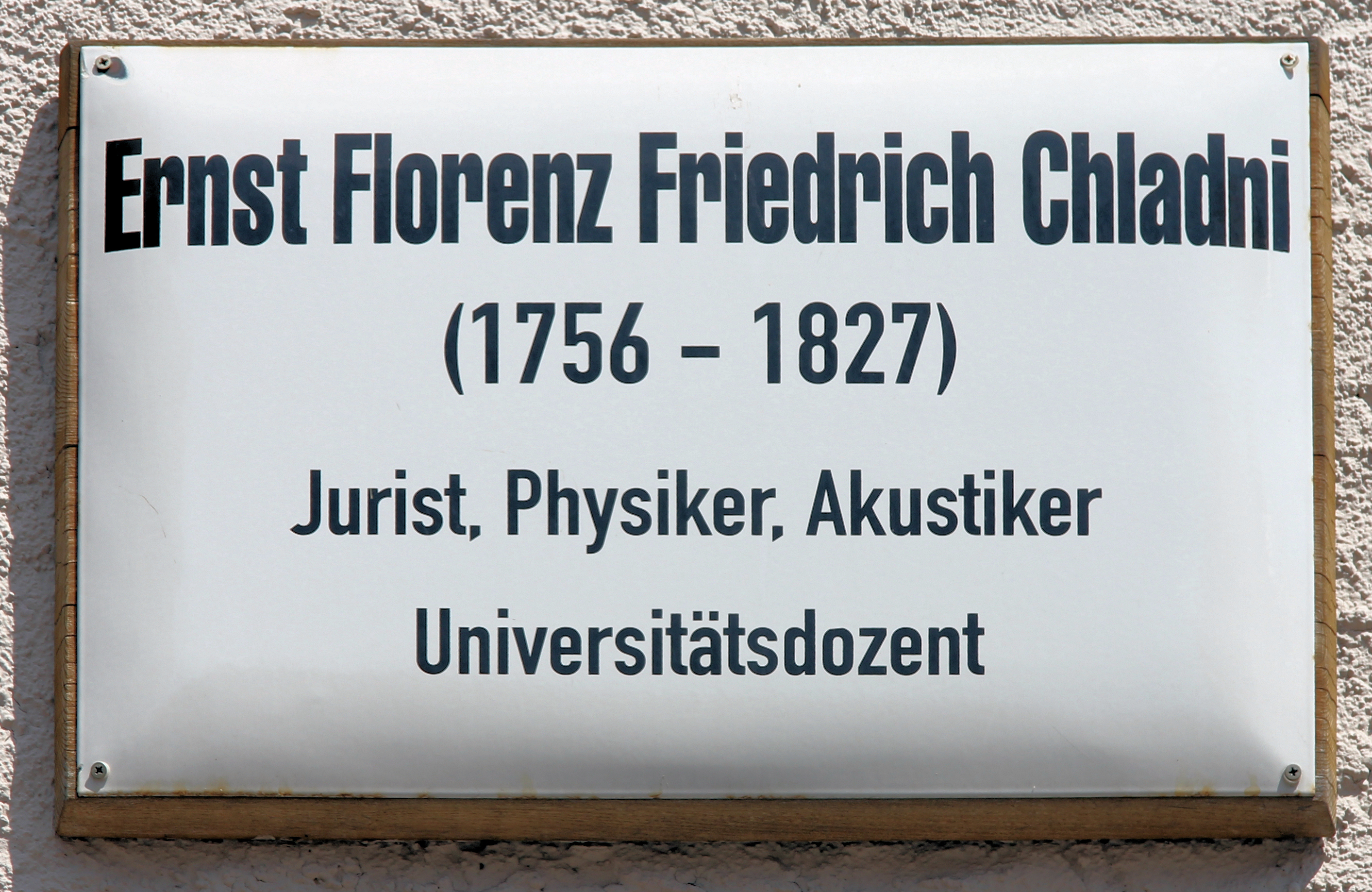 Memorial plaque, Ernst Florens Friedrich Chladni, Mittelstraße 5, Lutherstadt Wittenberg, Germany Koordinate:51°51′58″N 12°38′46″E / 51.86611°N 12.64611°E